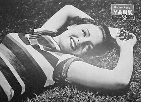 Pin-up photo of Donna Reed for the Nov. 2, 1945 issue of Yank, the Army Weekly, a weekly U.S. Army magazine fully staffed by enlisted men.